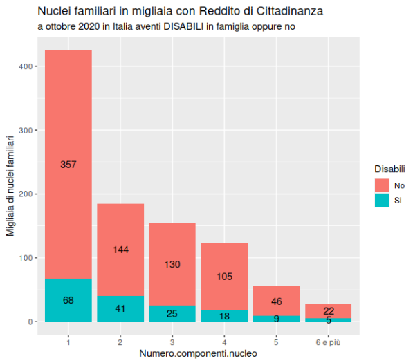 File realizzato con RStudio